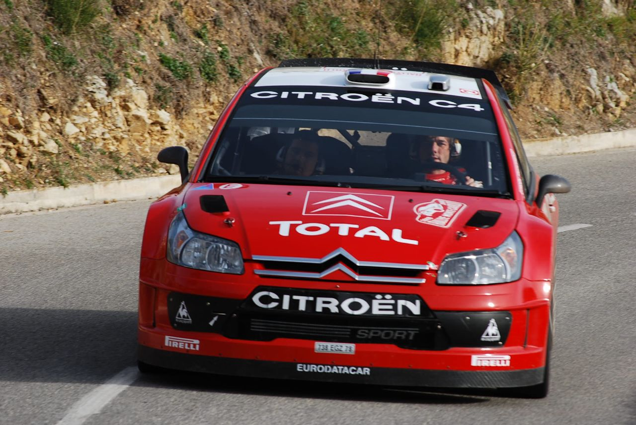 Sébastien Loeb driving his Citroën C4 WRC on a road section during the 2008 Monte Carlo Rally.